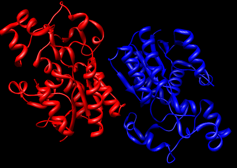 Whole Enzyme with colors